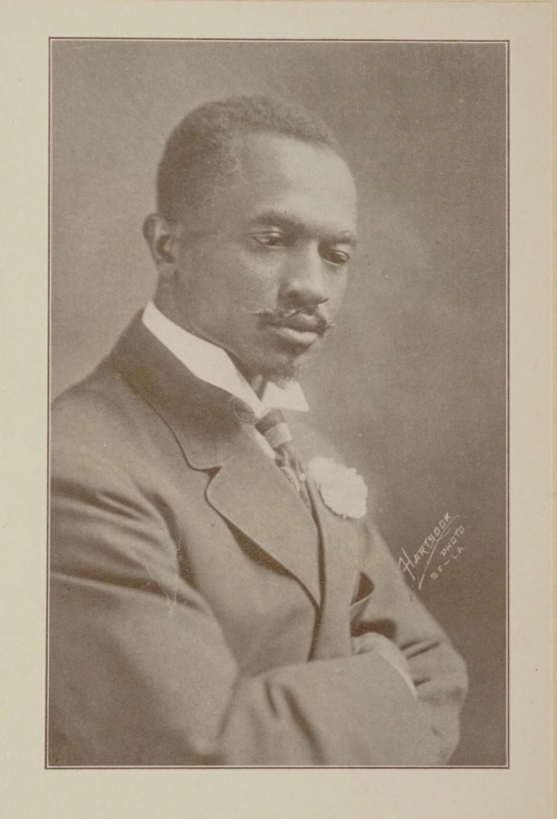 Portrait of Edward Smyth Jones published in the 1915 edition of The Sylvan Cabin